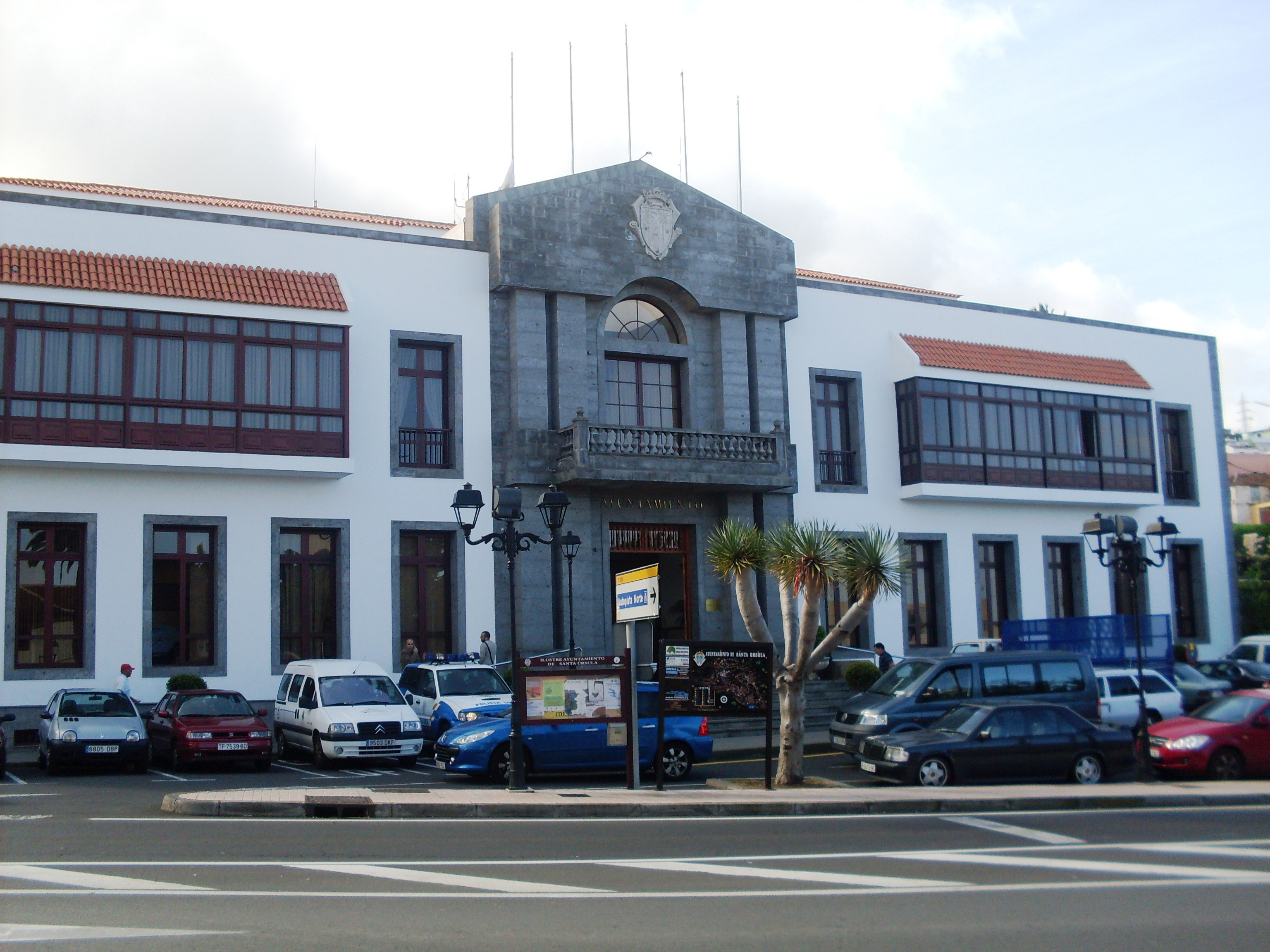 Facade of Santa Úrsula City Hall (Tenerife) without flags.